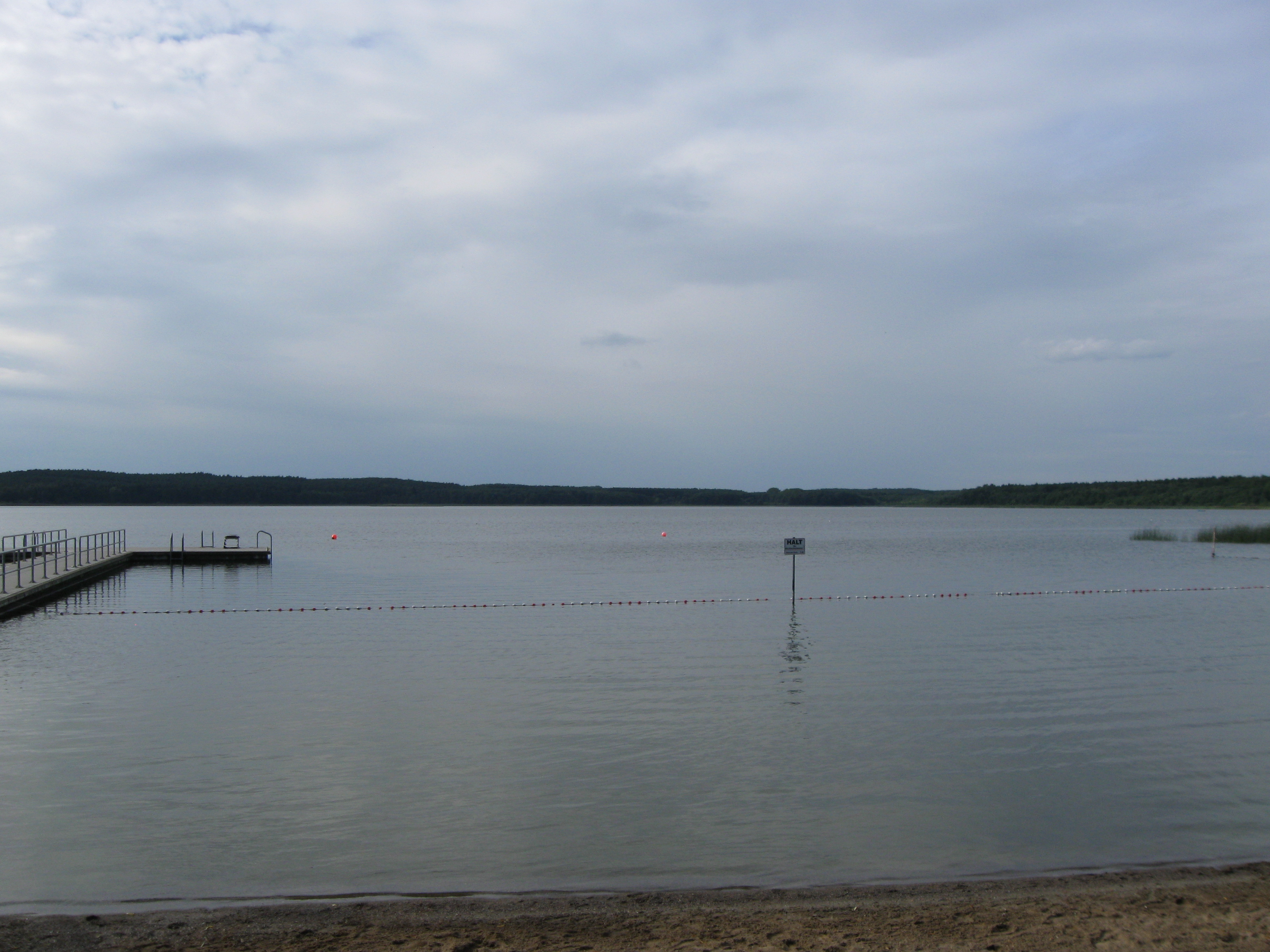 The lake Großer Wariner See from the South (Warin)